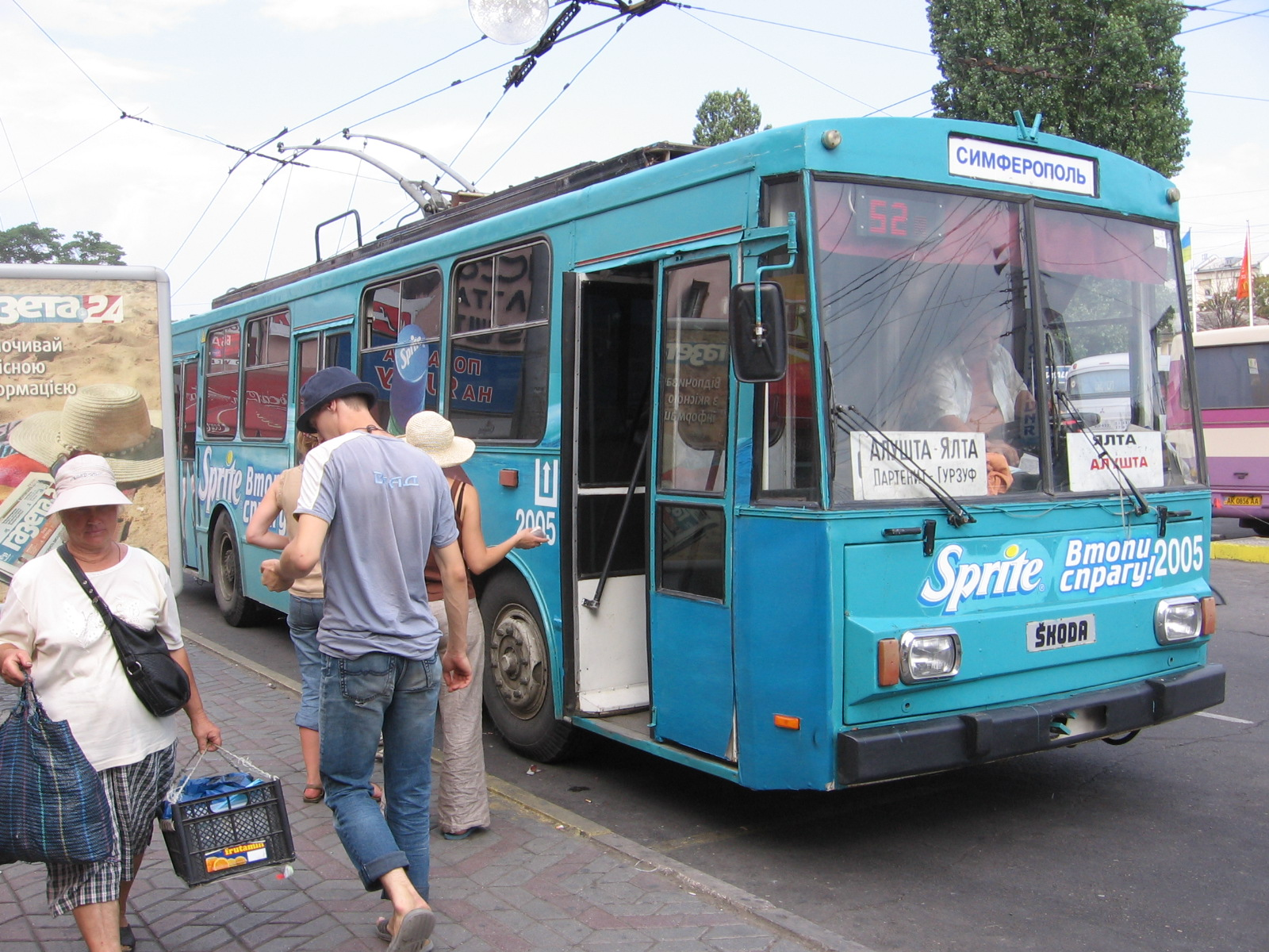 The 52 Simferopol — Alushta — Yalta inter-city trolleybus at its end station in Simferopol, Ukraine. Trolleybus model is Škoda 14Tr.